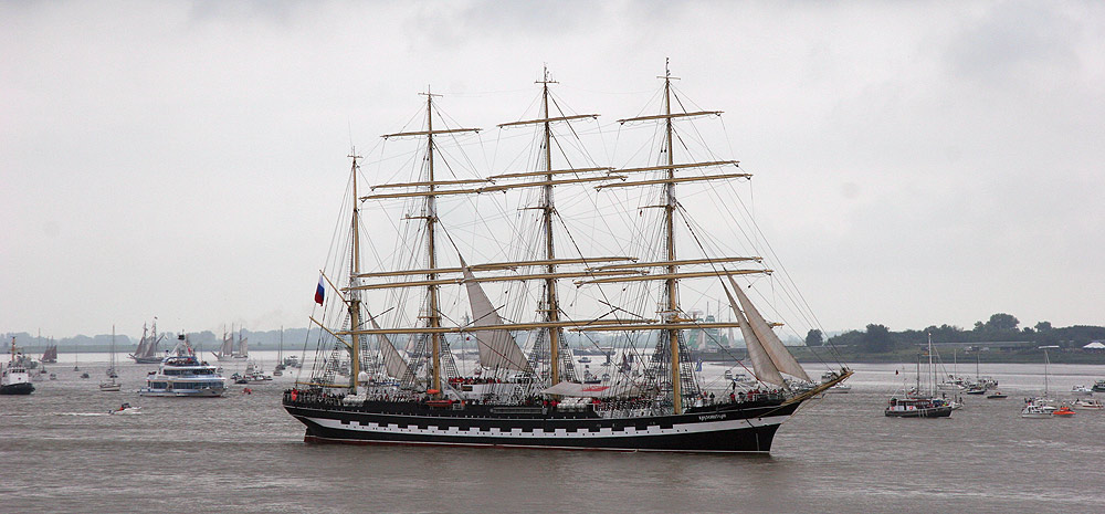 «Крузенштерн» (Kruzenshtern) at Sail Bremerhaven 2005